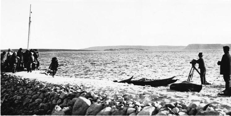 Photograph, R. J. Flaherty taking a movie, Port Harrison, QC, 1920-21, Samuel Herbert Coward, Silver salts on paper mounted on paper - Gelatin silver process - 5 x 11 cm